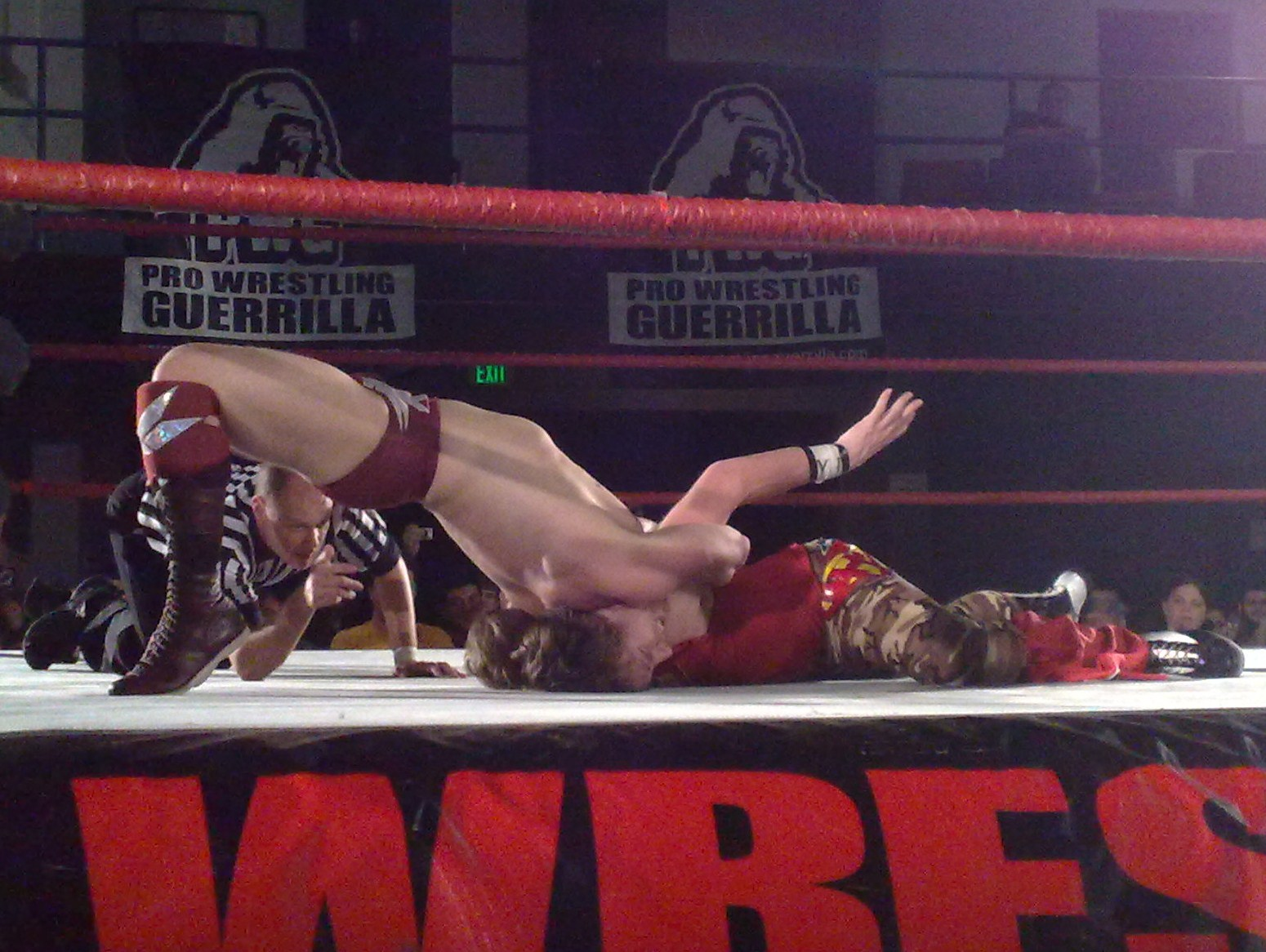 Professional wrestler Bryan Danielson performing his cattle mutilation hold on Chris Hero at Pro Wrestling Guerrilla's Battle of Los Angeles 2008 Night 2 show on November 2, 2008.